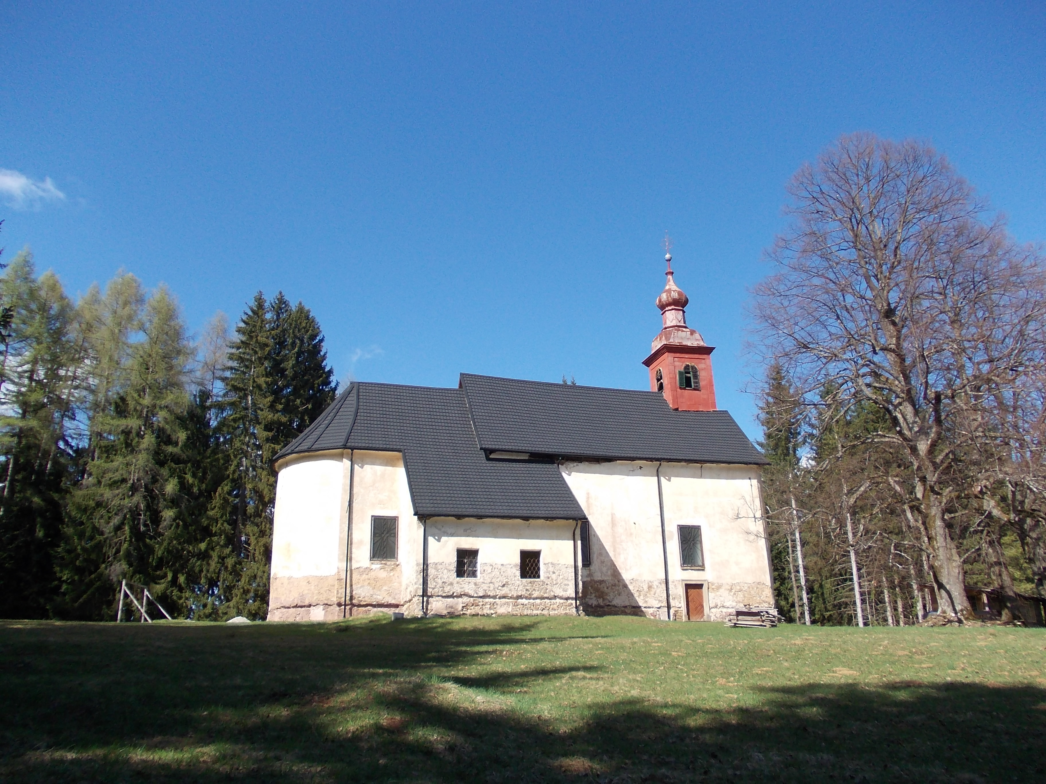 Saint Ignatius of Loyola Church, Rdeči Breg